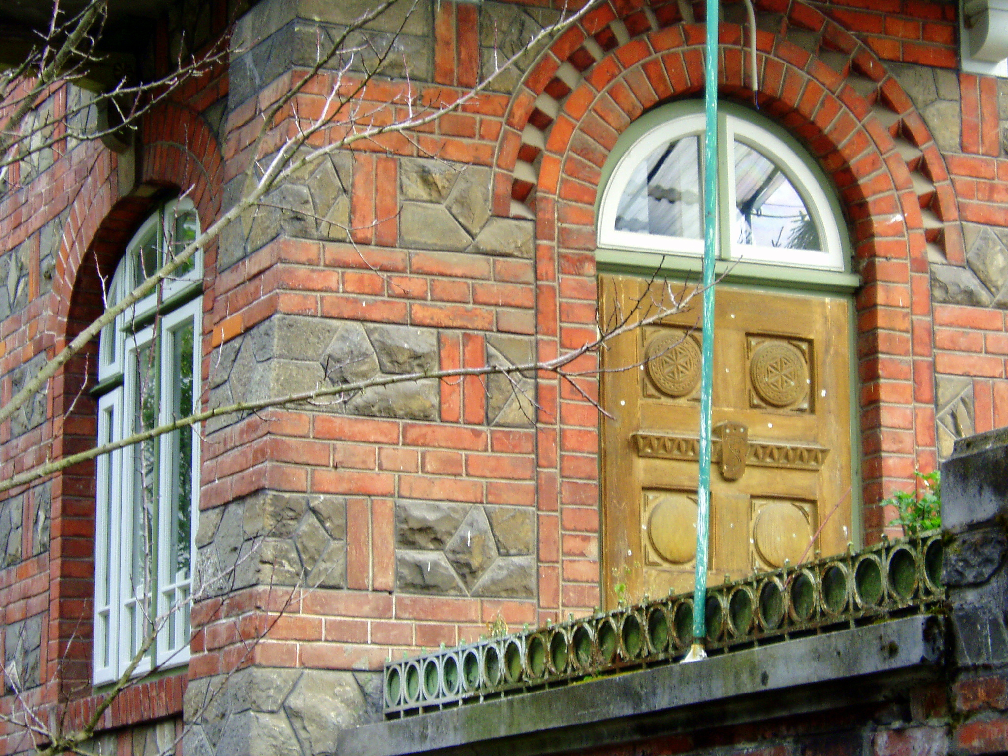 It is the Socolescu villa in Sinaia-Cumpătu, Judeţul Prahova, Romania. Built by architect Toma T. Socolescu for his wife Florica. We are the only heirs and descendants of Toma T. Socolescu (died in 1960 in Bucharest) and therefore owner of all his intellectual rights.